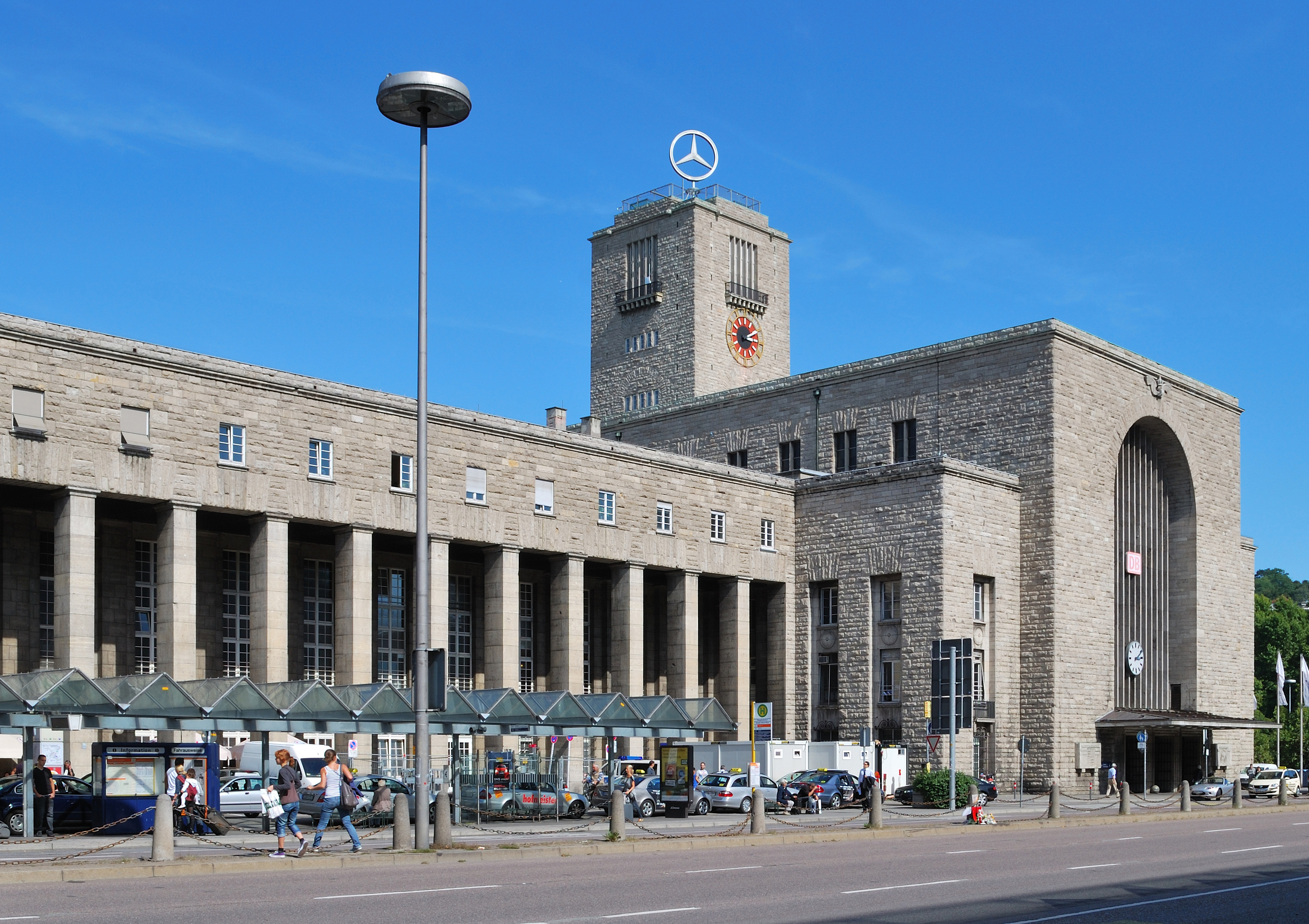 Stuttgart Central Station, view from the Arnulf-Klett-Platz.